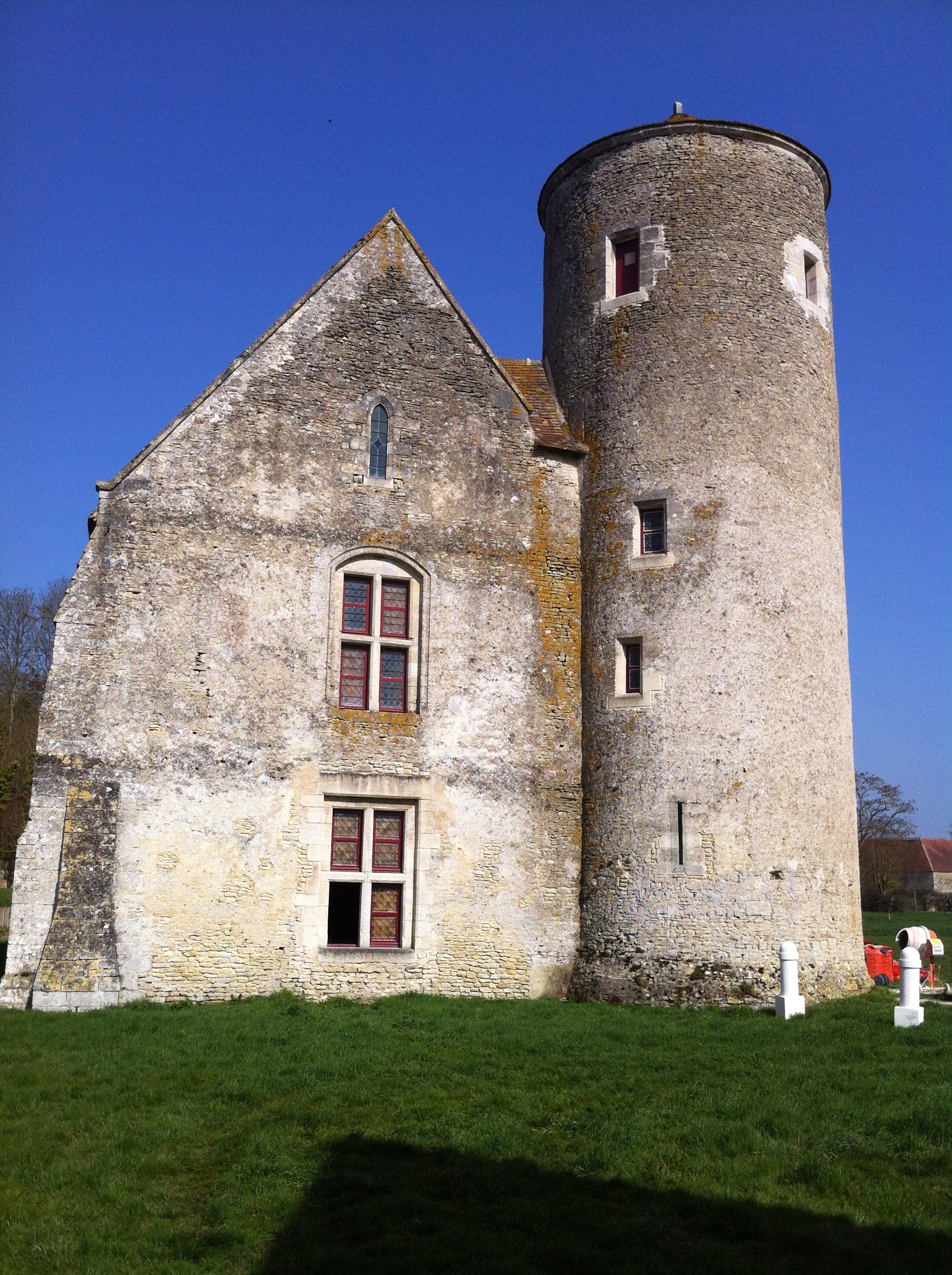 round stone tower with stone building attached